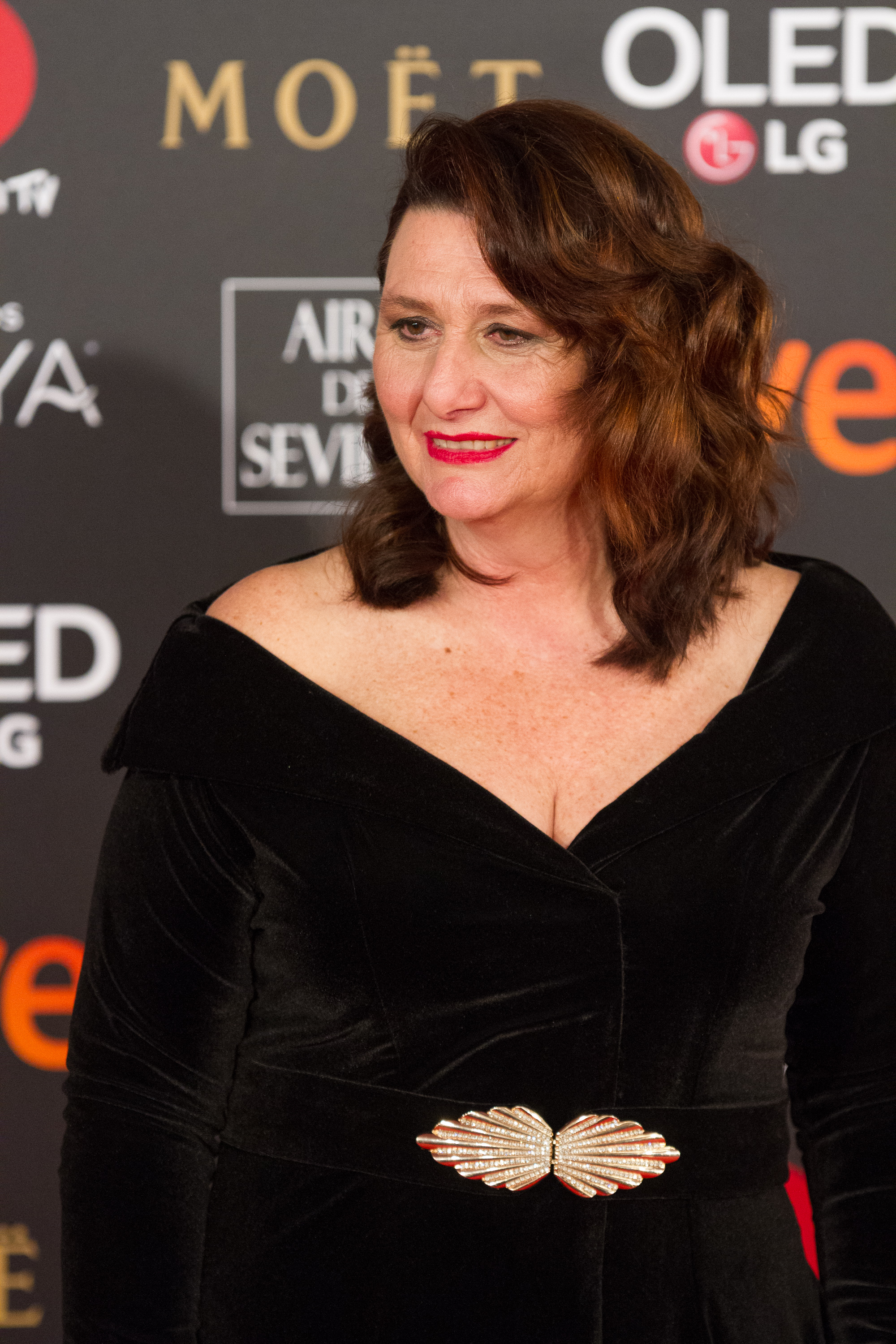 Adelfa Calvo at the 32nd Goya Awards, 2018.